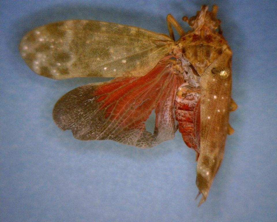 A photograph of a specimen of Enchophora sanguinea with one wing spread